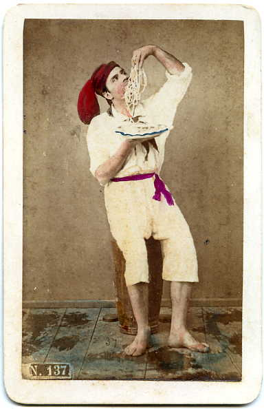 Giorgio Conrad (1827-1889) - Spaghetti-eater. Catalogue # 137.